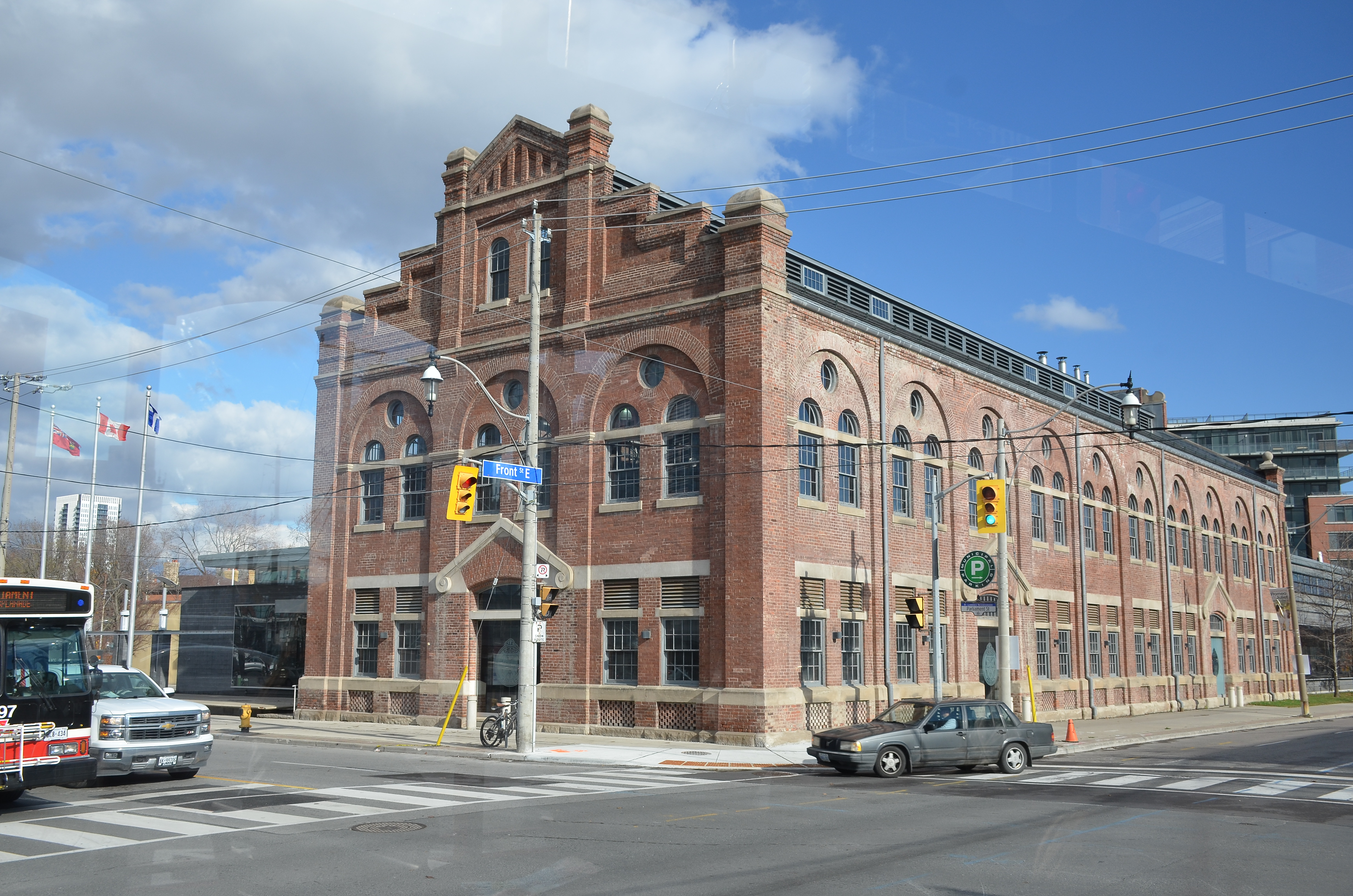 Many of the buildings in Toronto's Old Town historic district resemble large mills or factories, like this one right here. There was no sign outside it, so I cannot tell you what this is. Lovely building though! (Toronto, Canada, Nov.2015)